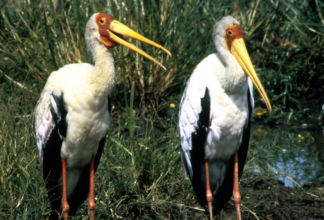 Yellow-billed Storks (Mycteria ibis)